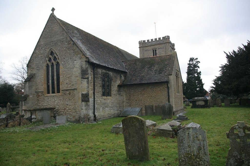 North side of St Laurence View of the north side of St Laurence Church